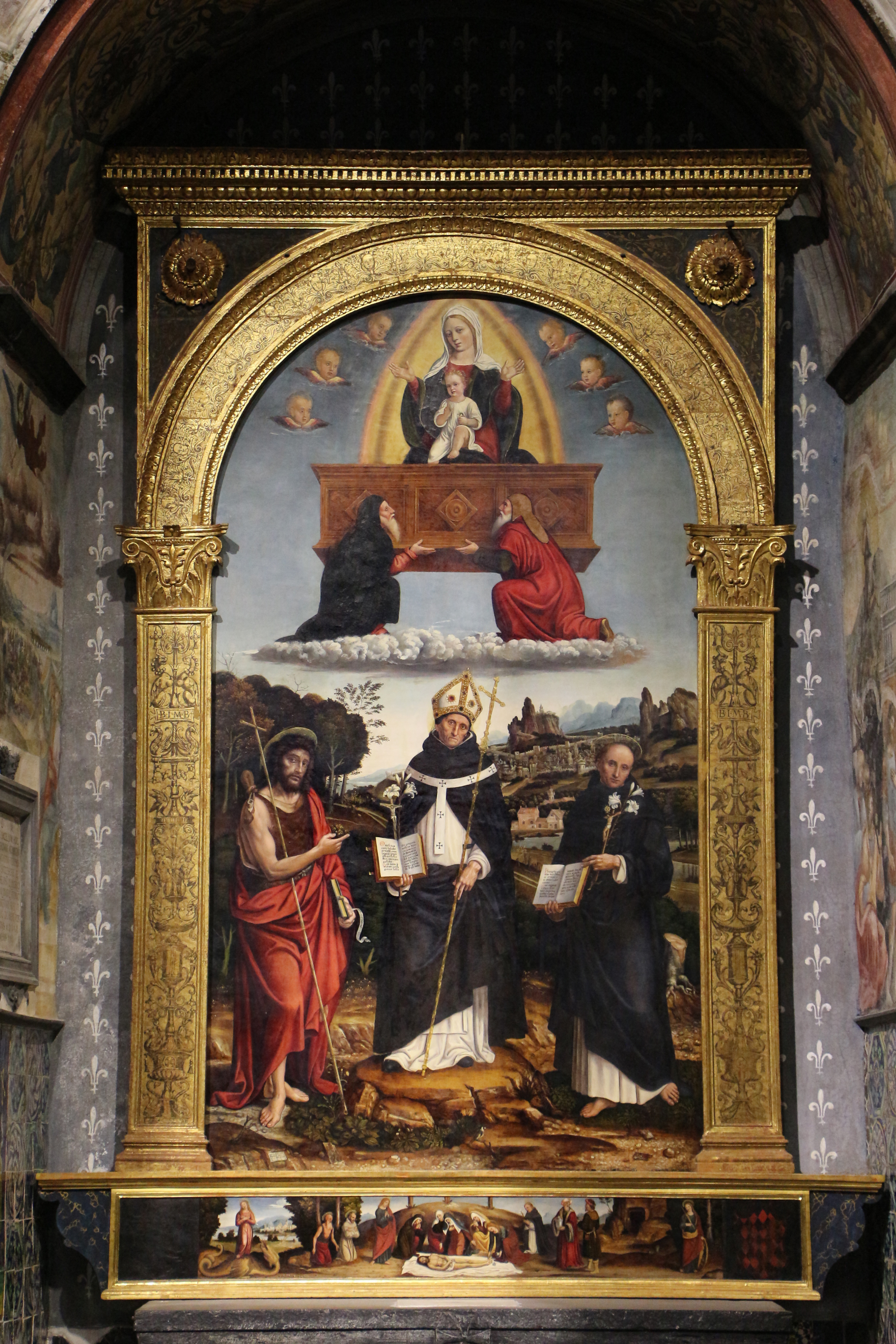 Santa Maria di Castello (Genoa) - Interior